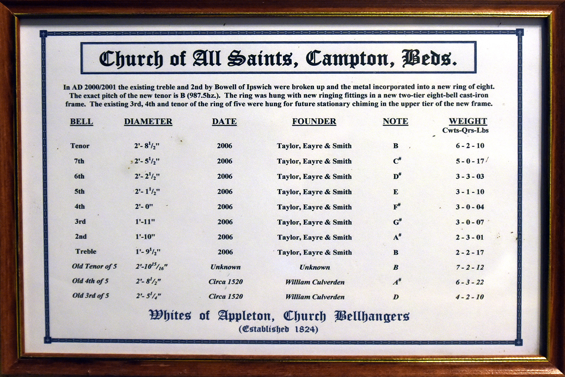 Information about the bells in All Saints Church Campton